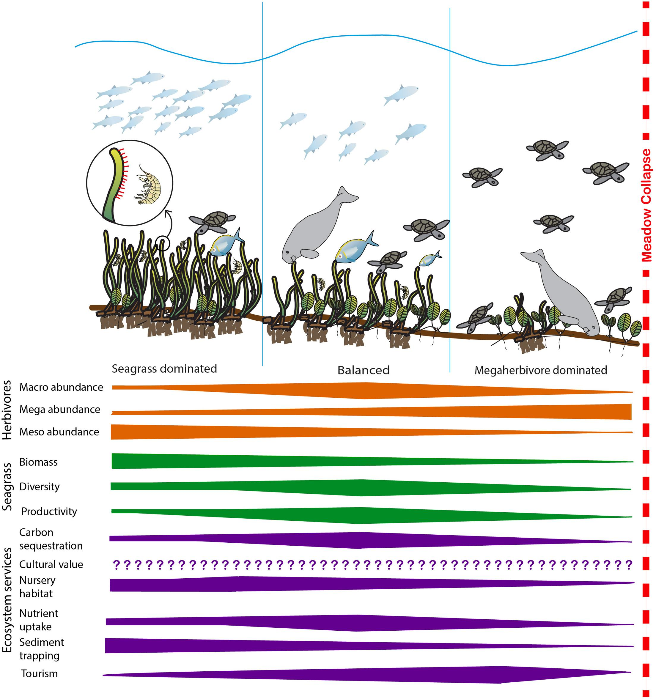 Effect of herbivore abundance in seagrass meadows Summary of the expected change in herbivore abundance, key seagrass meadow properties and selected ecosystem services as habitats shift from seagrass-dominated to megaherbivore-dominated. At low levels of herbivory, disturbance is minimal and seagrass biomass dominates the system. As herbivory increases, the system moves toward a balanced state where productivity increases in response to herbivory and productivity-associated ecosystem services’ (i.e., carbon sequestration and storage, nutrient uptake leading to improved water quality) delivery increases. In this system, the diversity of both seagrass and herbivore assemblages are generally at their highest. As herbivory increases further, seagrass biomass, diversity and productivity decreases and most ecosystem services’ delivery reduces before the meadow becomes overgrazed and collapses, at which point ecosystem services’ delivery ceases. Cultural ecosystem services’ delivery may be influenced by herbivory, but responses will be highly variable and changes in cultural ecosystem service delivery with increasing herbivory cannot be confidently predicted (Díaz et al., 2006; Garcia Rodrigues et al., 2017). Bars illustrate likely direction of change and do not signify predicted linear relationships. Díaz, S., Fargione, J., Chapin, F. S., and Tilman, D. (2006). Biodiversity loss threatens human well-being. PLOS Biol. 4:e277. Garcia Rodrigues, J., Conides, A., Rivero Rodriguez, S., Raicevich, S., Pita, P., Kleisner, K., et al. (2017). Marine and coastal cultural ecosystem services: knowledge gaps and research priorities. One Ecosyst. 2:e12290.